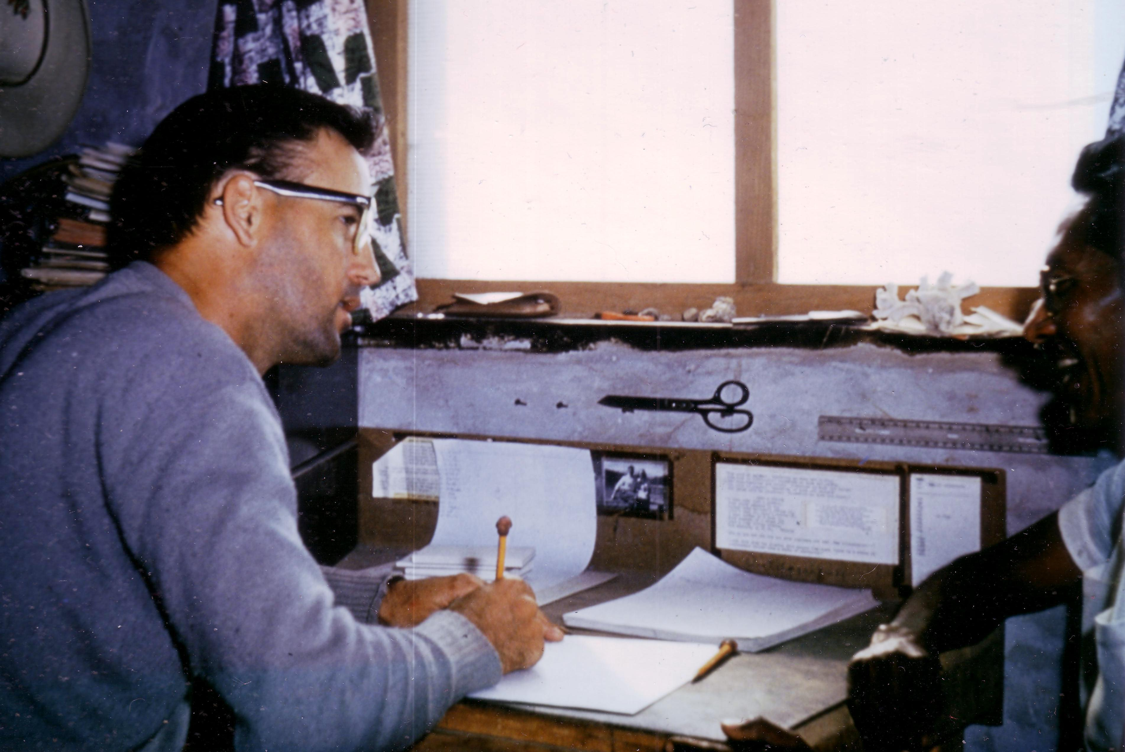 Edward W. Moser and Roberto Herrera Marcos at work in late 50's in Desemboque, Sonora, Mexico